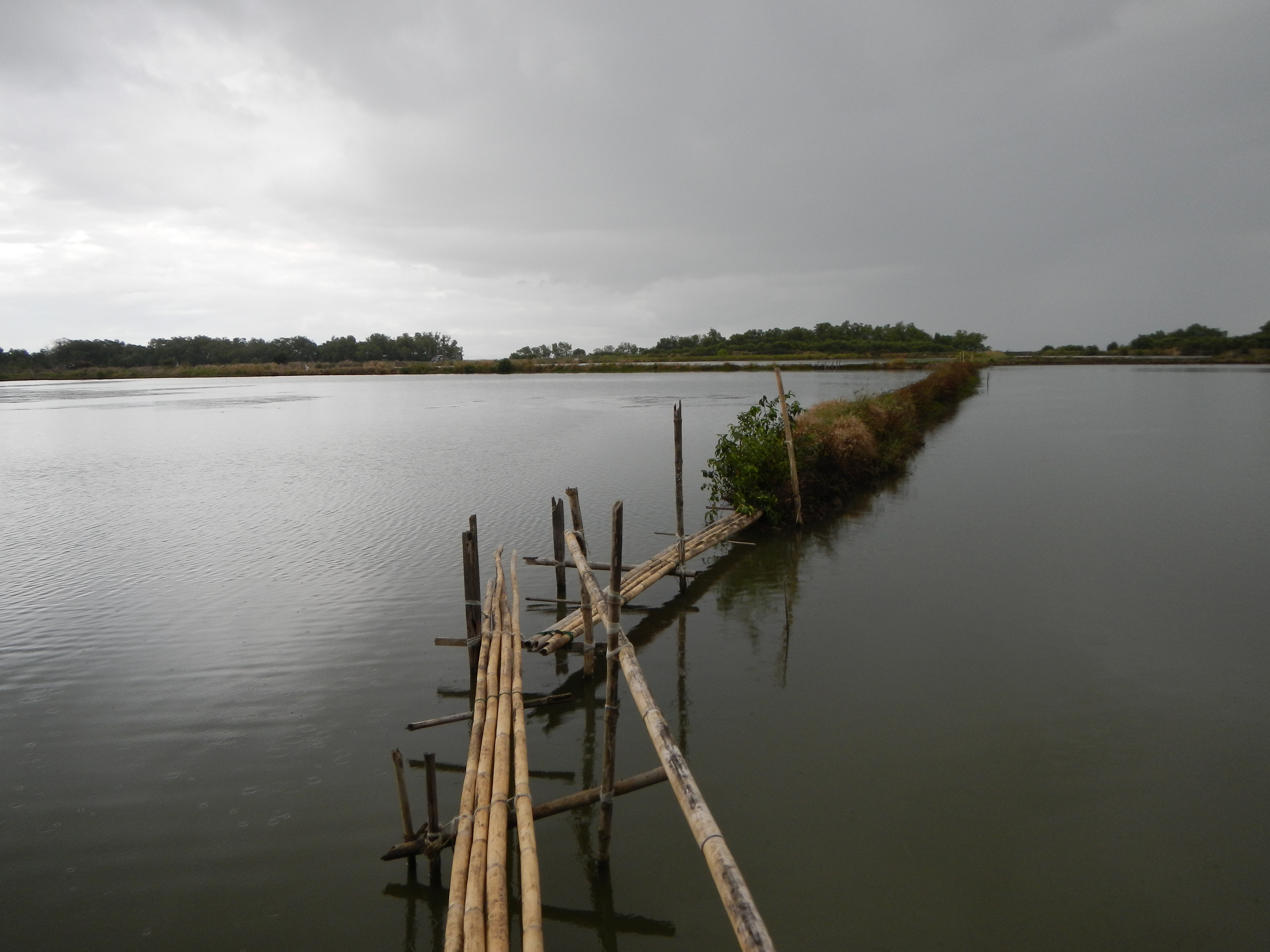 Samal, Bataan[1][2]Eastern side of Bataan, Samal is bounded by the municipalities of Orani, Abucay, Mt. Natib and Manila Bay. Its total population is 45,677 with main products: palay, corn, vegetable, fruits, rootcrops, coffee and cutflowers, livestock, poultry and aquatic resources such as shellfish, crabs, prawns, shrimps and different species of fish. Coordinates: 14°46'3"N 120°29'8"E[3][4][5]